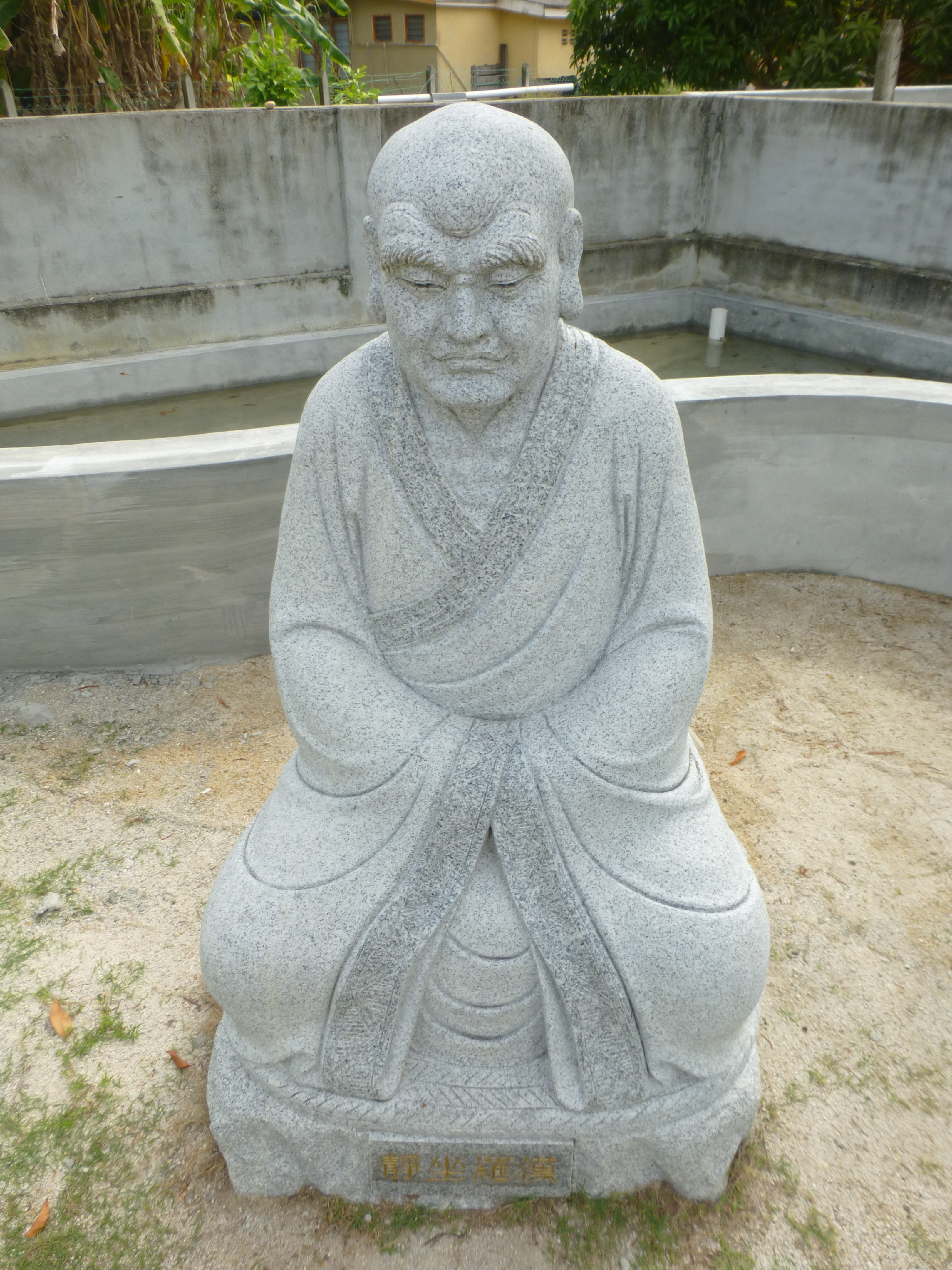 036 Rahula Thera (Thinking), at Ping Sien Si, Pasir Panjang, Perak, Malaysia Photograph from Ping Sien Si Temple in Perak, Malaysia taken by Anandajoti.